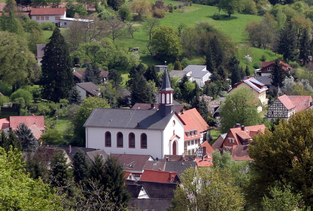 The Saint Anna Church in Bensheim-Gronau (Hesse, Germany)